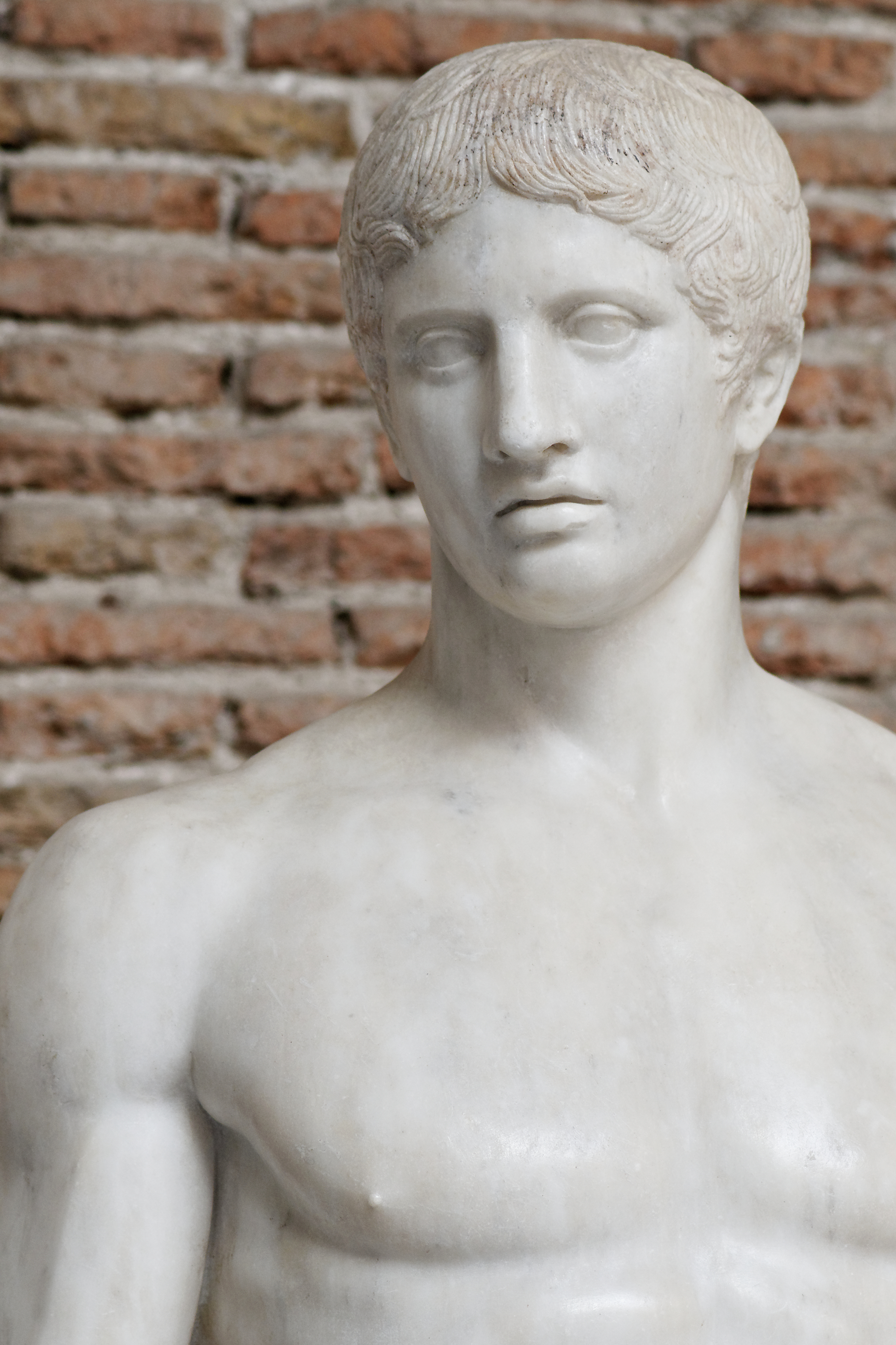 Statue of a young warrior carrying a spear. Roman copy of the Imperial era after a Greek original of the Late Classicism. bust